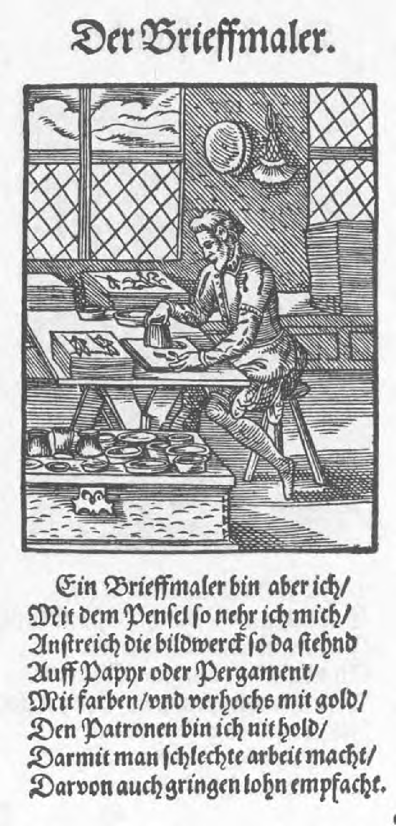 This is a scan of the historical document